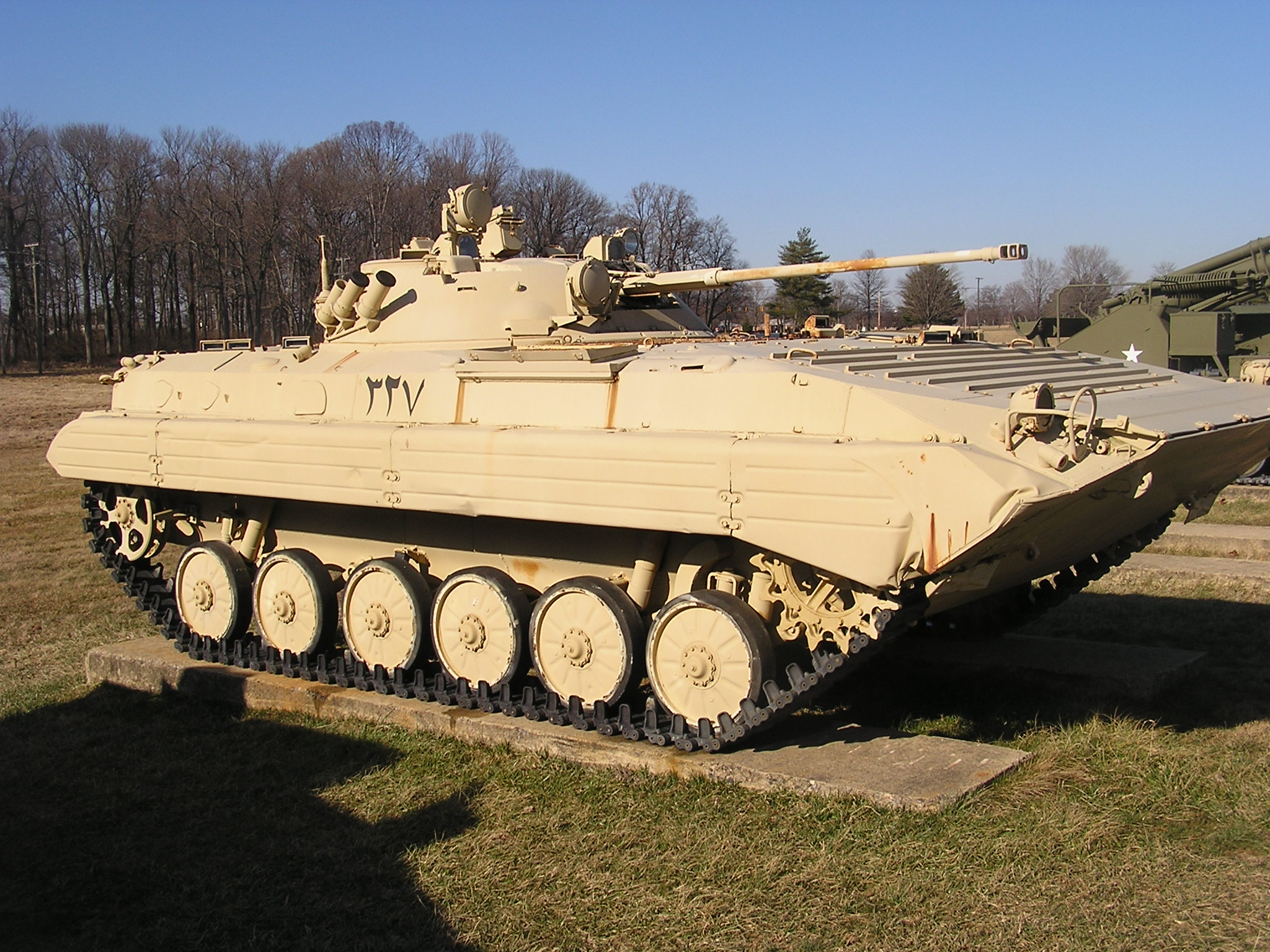 BMP-2 at the United States Army Ordnance Museum.